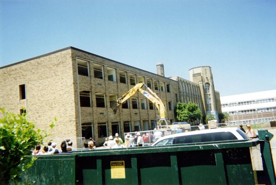 The demolition of the former Garfield Heights Middle School in Garfield Heights, Ohio, seen in June 2003. Photo taken by Andrew DeFratis, June 2003.